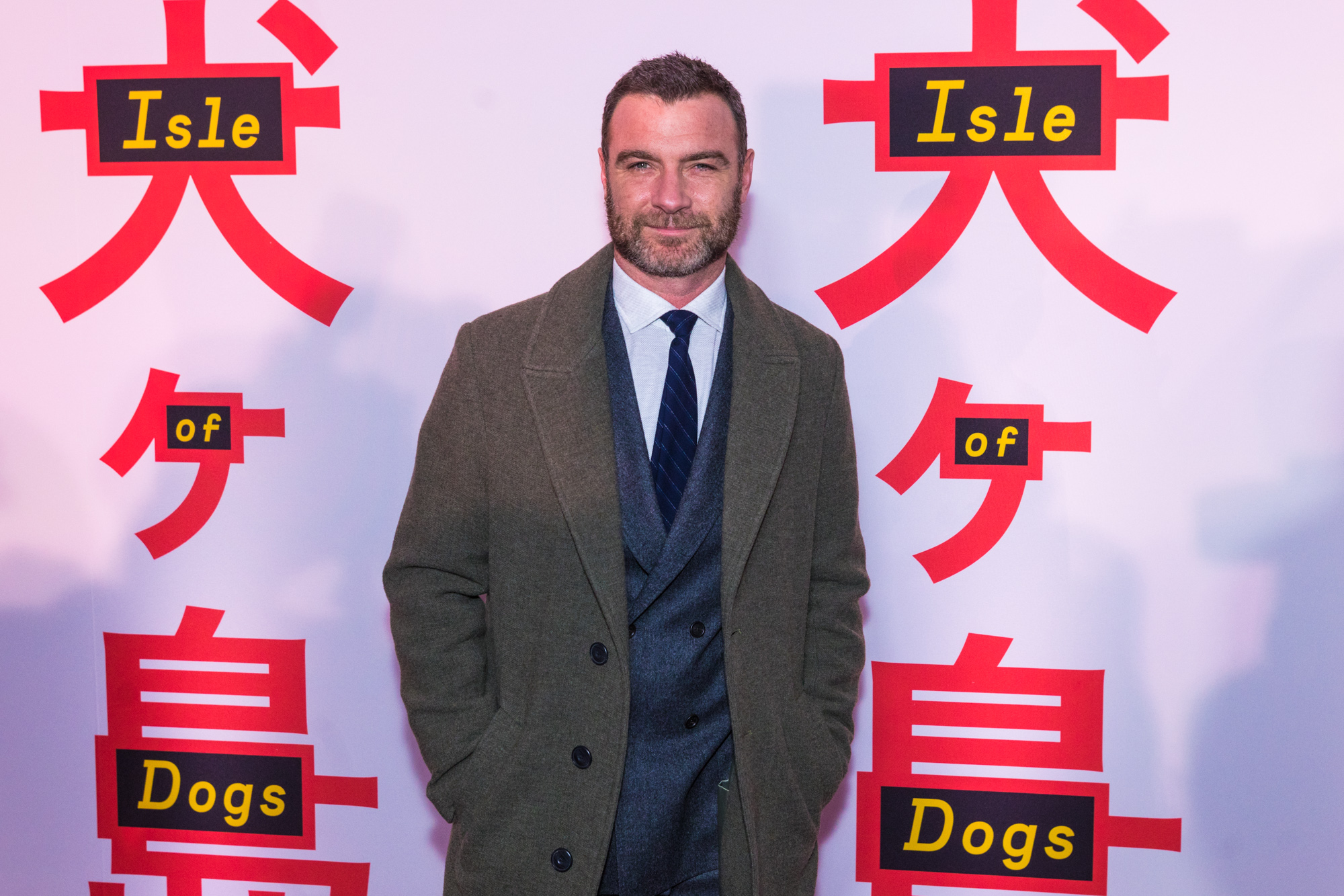 Liev Schreiber at the screening of Wes Anderson's 'Isle of Dogs' at the Metropolitan Museum of Art in New York on March 20, 2018. Companion book 'The Wes Anderson Collection: Isle of Dogs' from Abrams arrives this May.